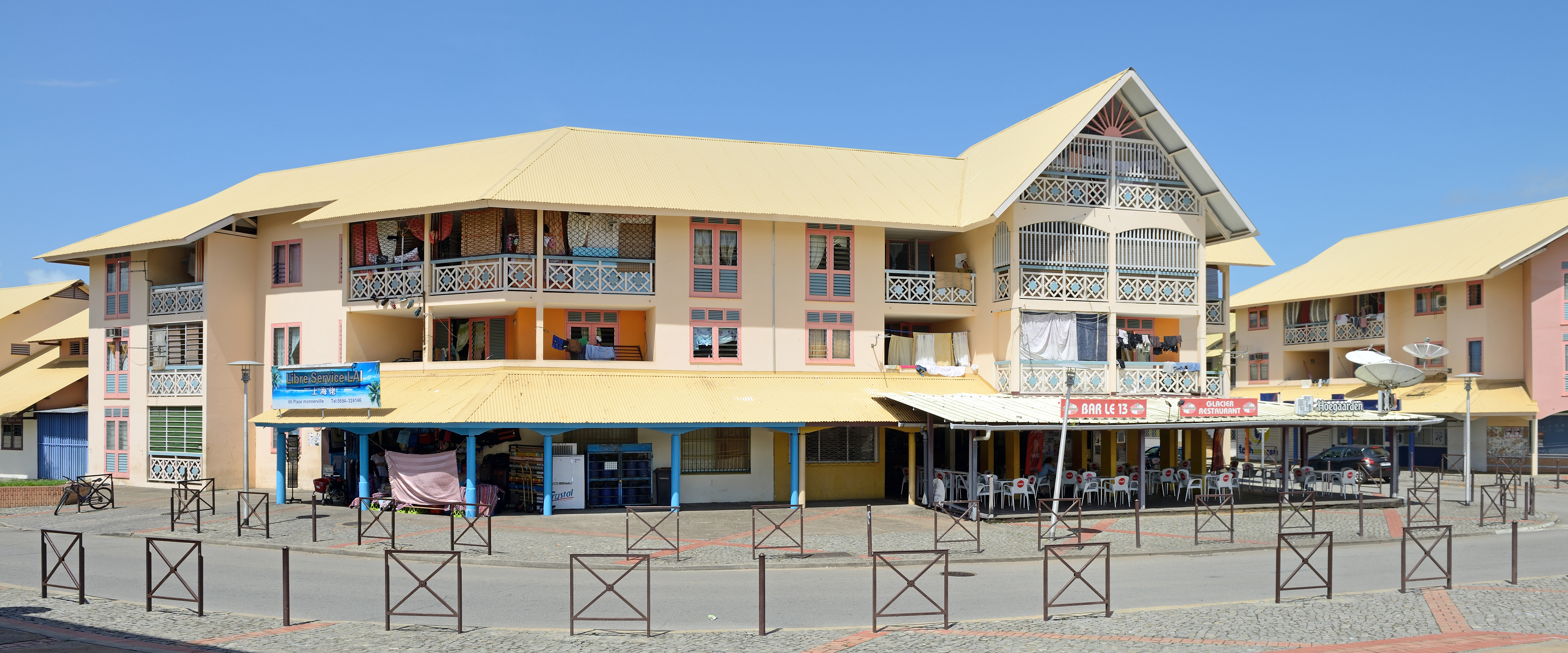 Centre of Kourou, French Guiana.